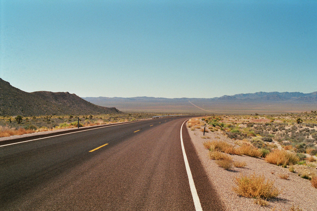 Nevada State Route 375 northbound, Tikaboo Valley as seen from Hancock Summit; in the southern Nevada desert